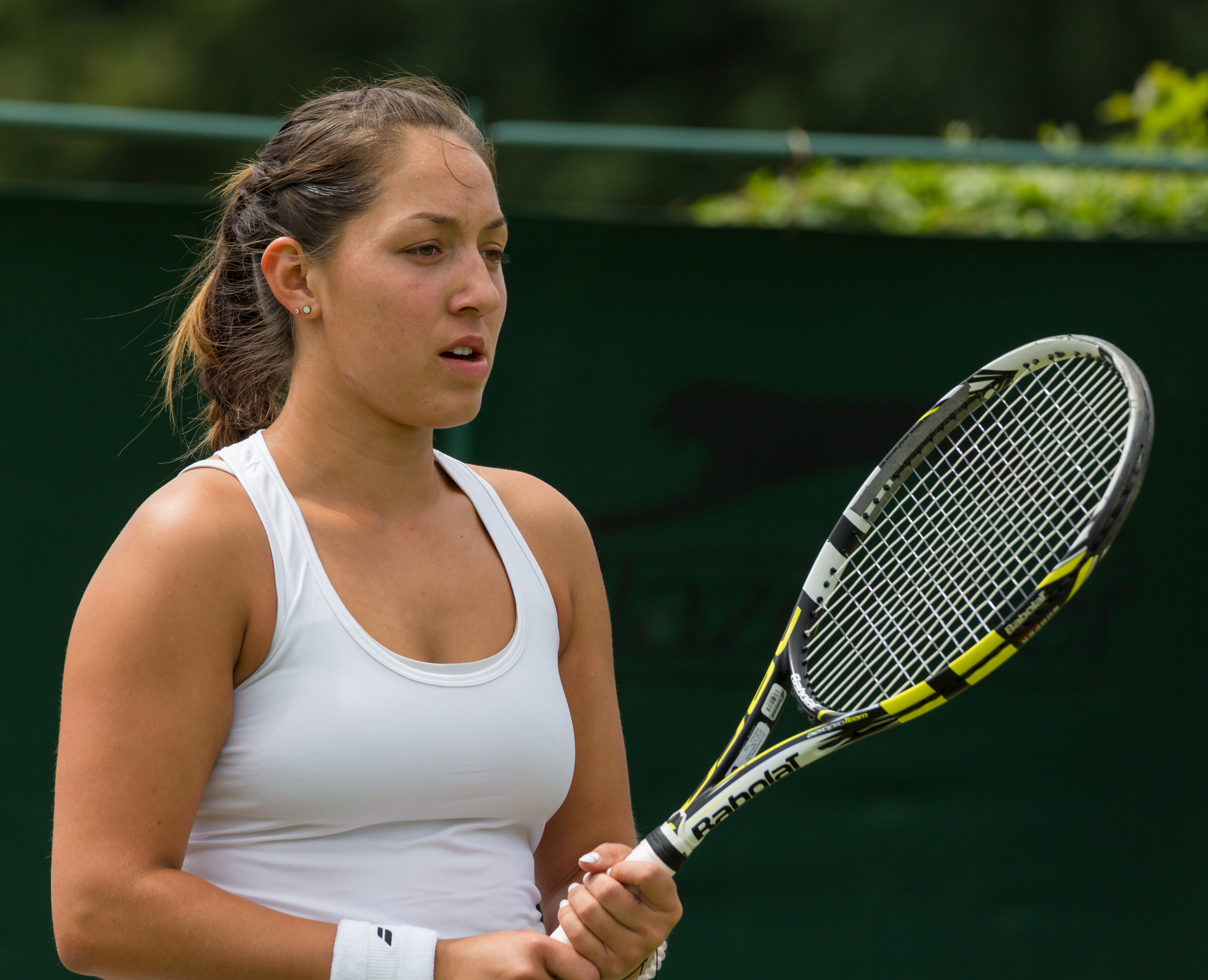 Jessica Pegula competing in the first round of the 2015 Wimbledon Qualifying Tournament at the Bank of England Sports Grounds in Roehampton, England.